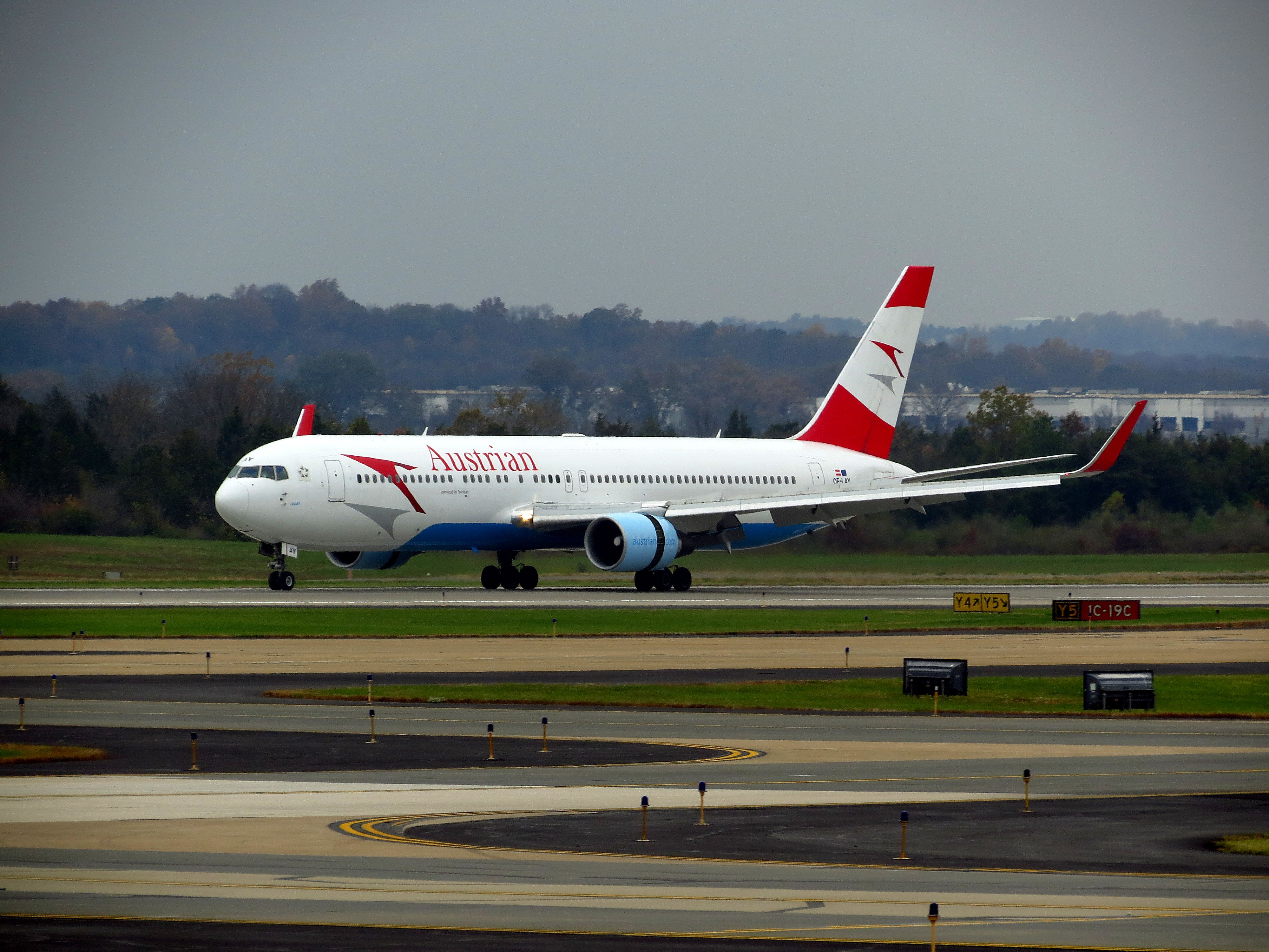 Tyrolean Airways Boeing 767-300 Washington Dulles International Airport